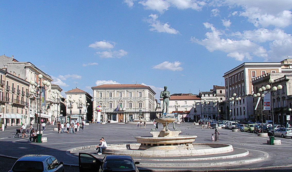 L'Aquila, View of Piazza del Duomo facing east.